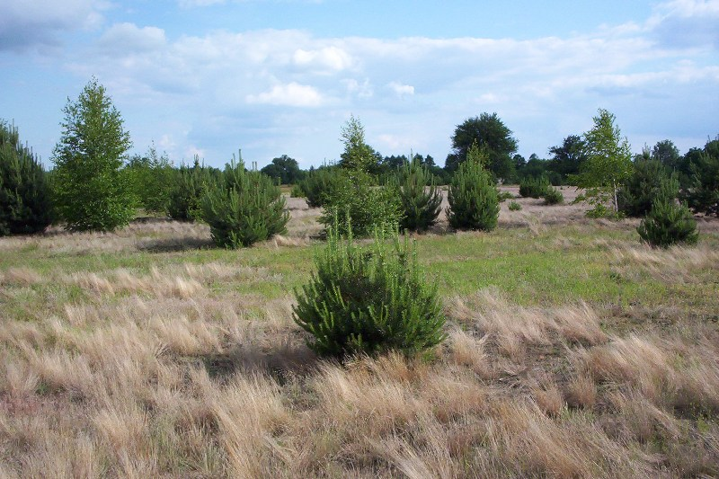 Secondary succession. Trees are growing on meadows and fields which are not cultivated anymore. Fields near Żyrardów, pl: Bolimowski Park Krajobrazowy (Mazovia, Poland)